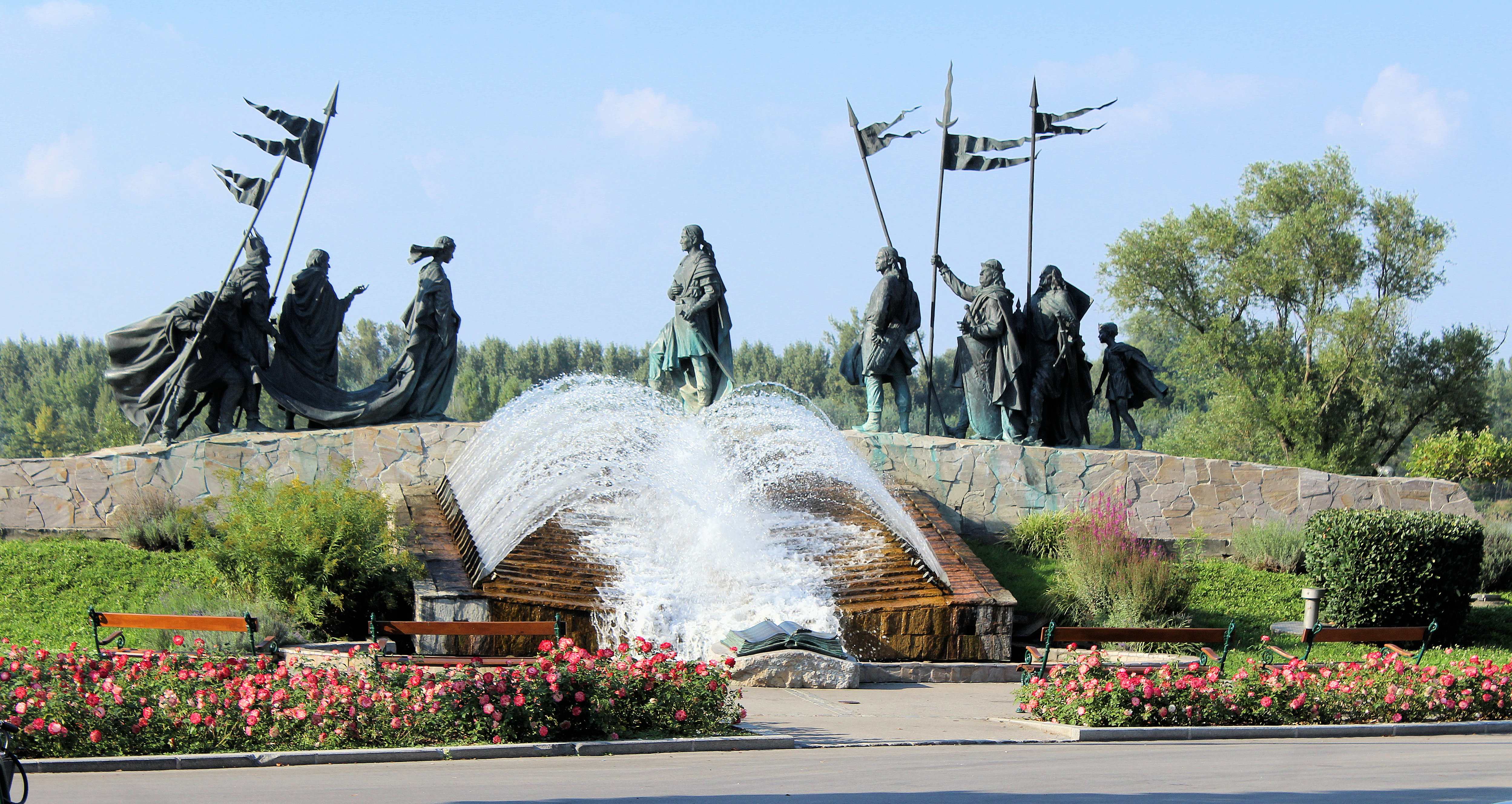 Tulln an der Donau, the Nibelungen fountain